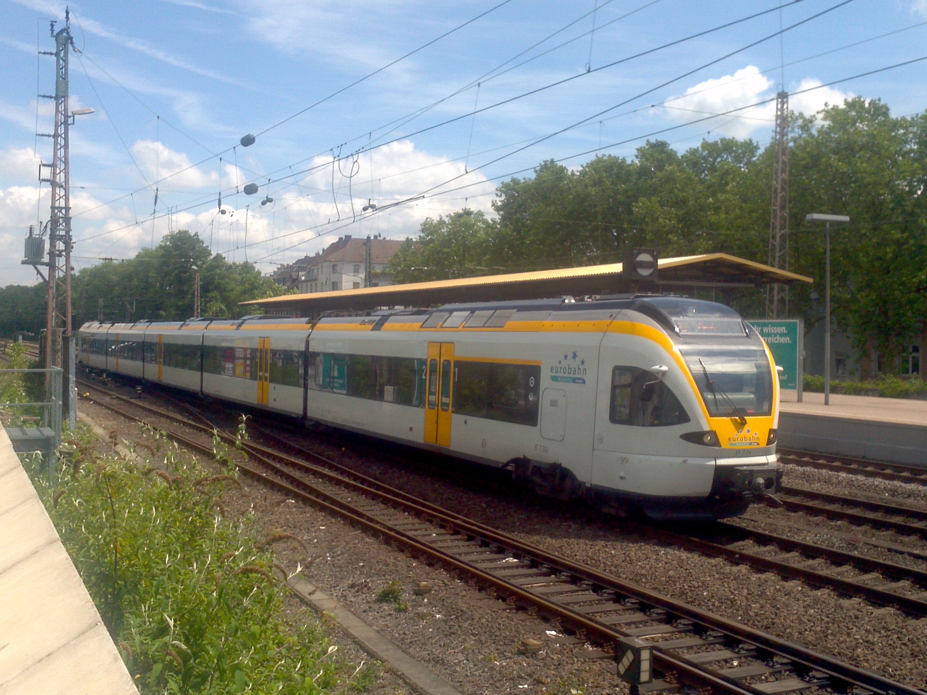 Eurobahn in Düsseldorf-Bilk